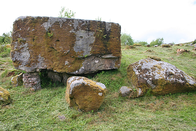 Boulder Tomb